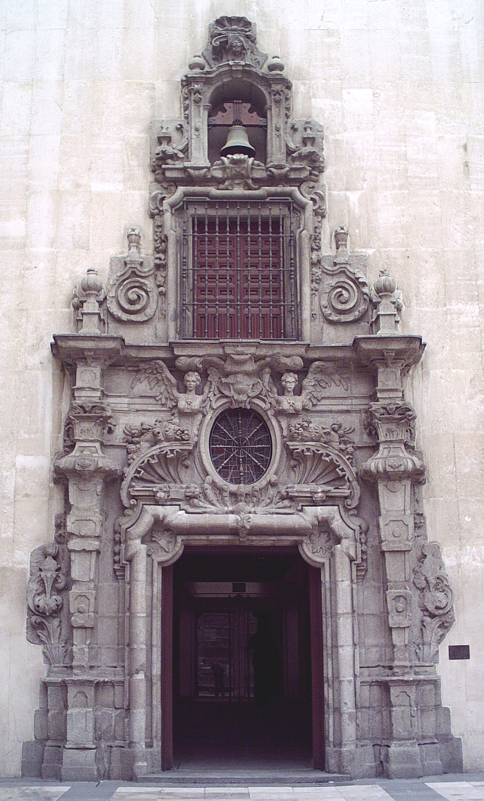 Front of the chapel of the former Monte de Piedad building in Madrid (Spain, 1724). Made in 1733 by the architect Pedro de Ribera (1681–1742).